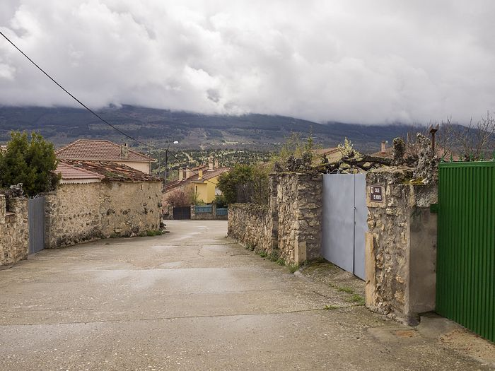 Paisaje desde el pueblo